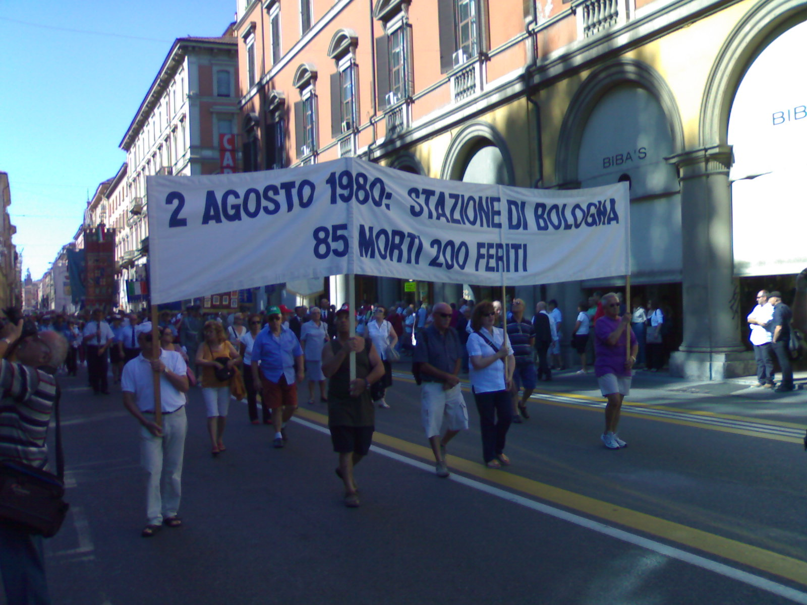 Celebration 30 years from august 1980 Bologna bombing